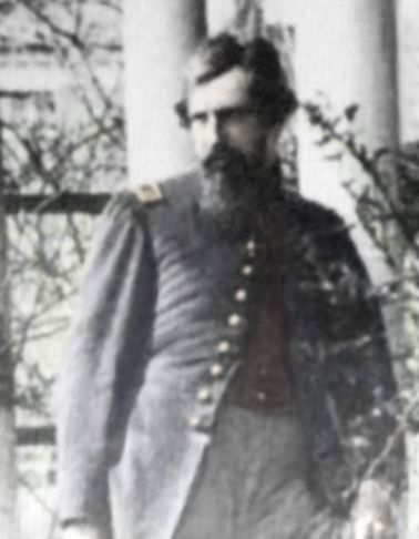 Capt. Andrew Joseph Russell, cropped, tinted, original albumen silver print